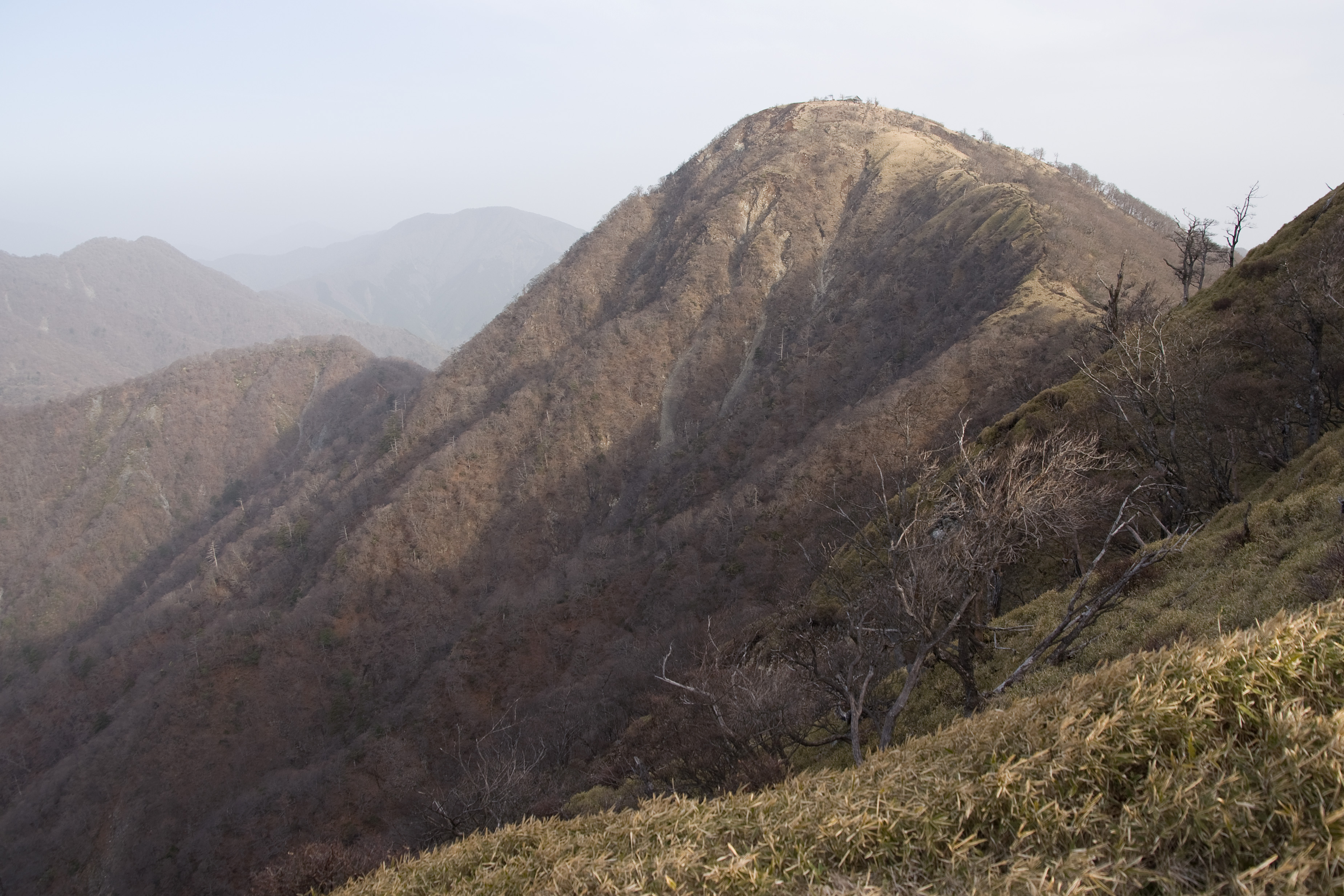 Mt.Hirugatake as seen from Mt.Tanasawanoatama, Kanagawa Pref, Japan.